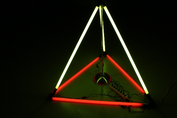 Light art object "Tetrahedron" (German: Tetraeder) by Martina Schettina, shown at the light art biennale Austria 2010.